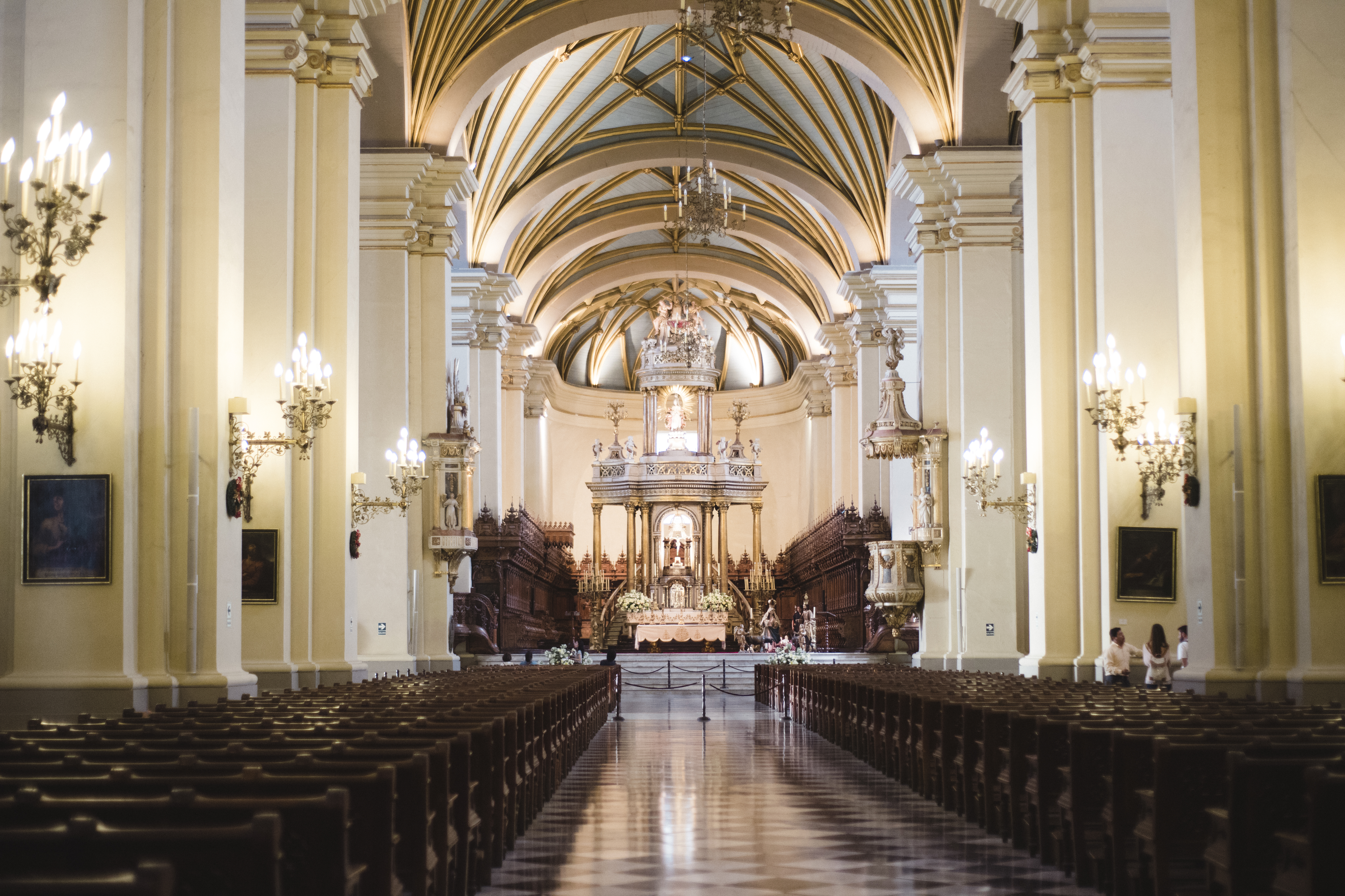 The nave of the Cathedral, December 2016